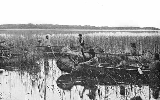 Anishinaabeg harvesting wild rice on Minnesotan lake around 1905